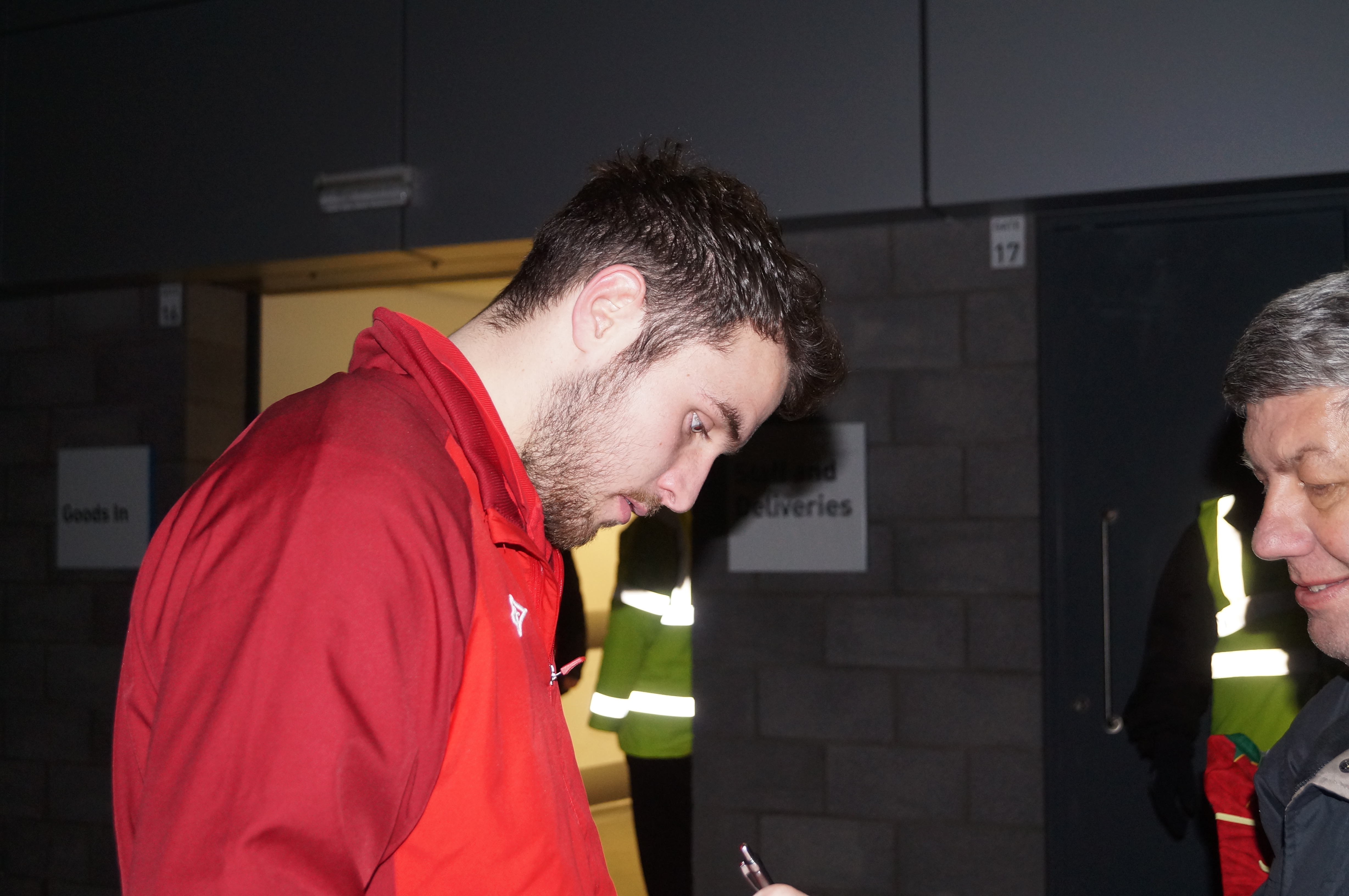 Jake Kean signing autographs at Brighton & Hove Albion vs Blackburn Rovers 12/02/2013